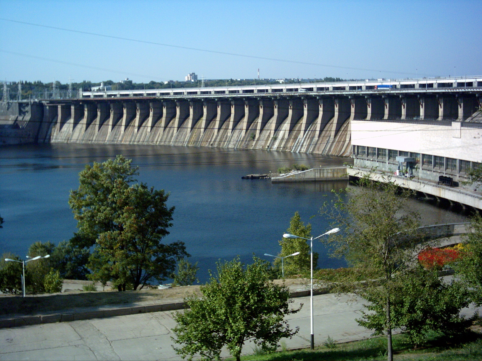 Dnieper Hydroelectric Station in 2005.